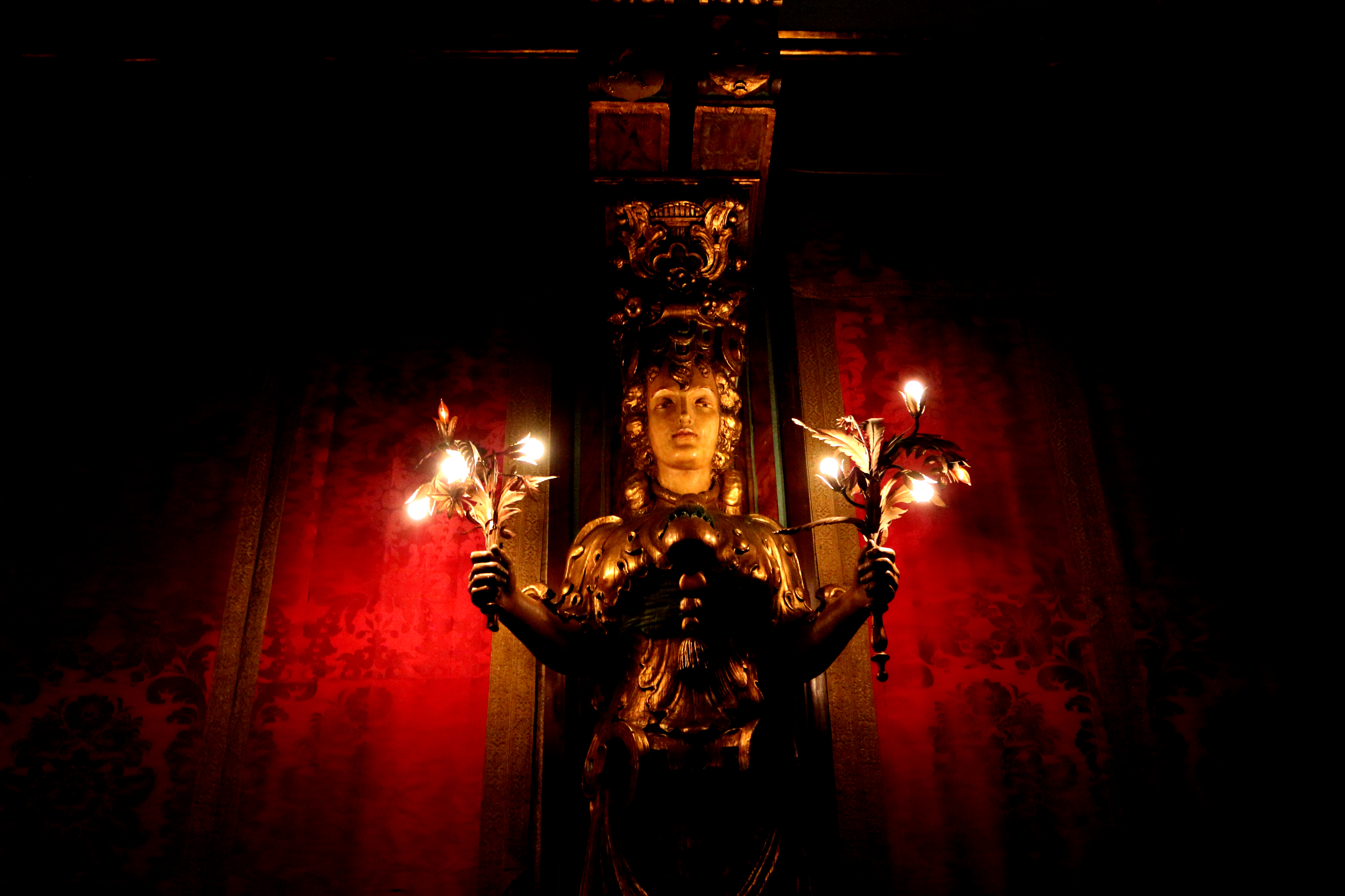 Lighting in William Hearst's private cinema